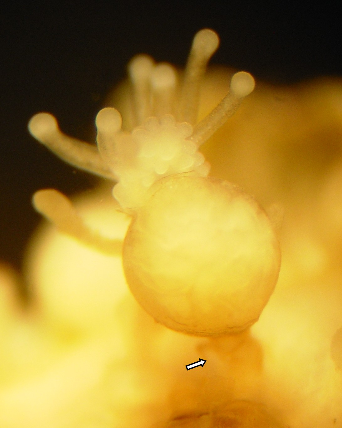 Candelabrum cocksii. Hatching of the embryonic capsule releasing the actinula larva.